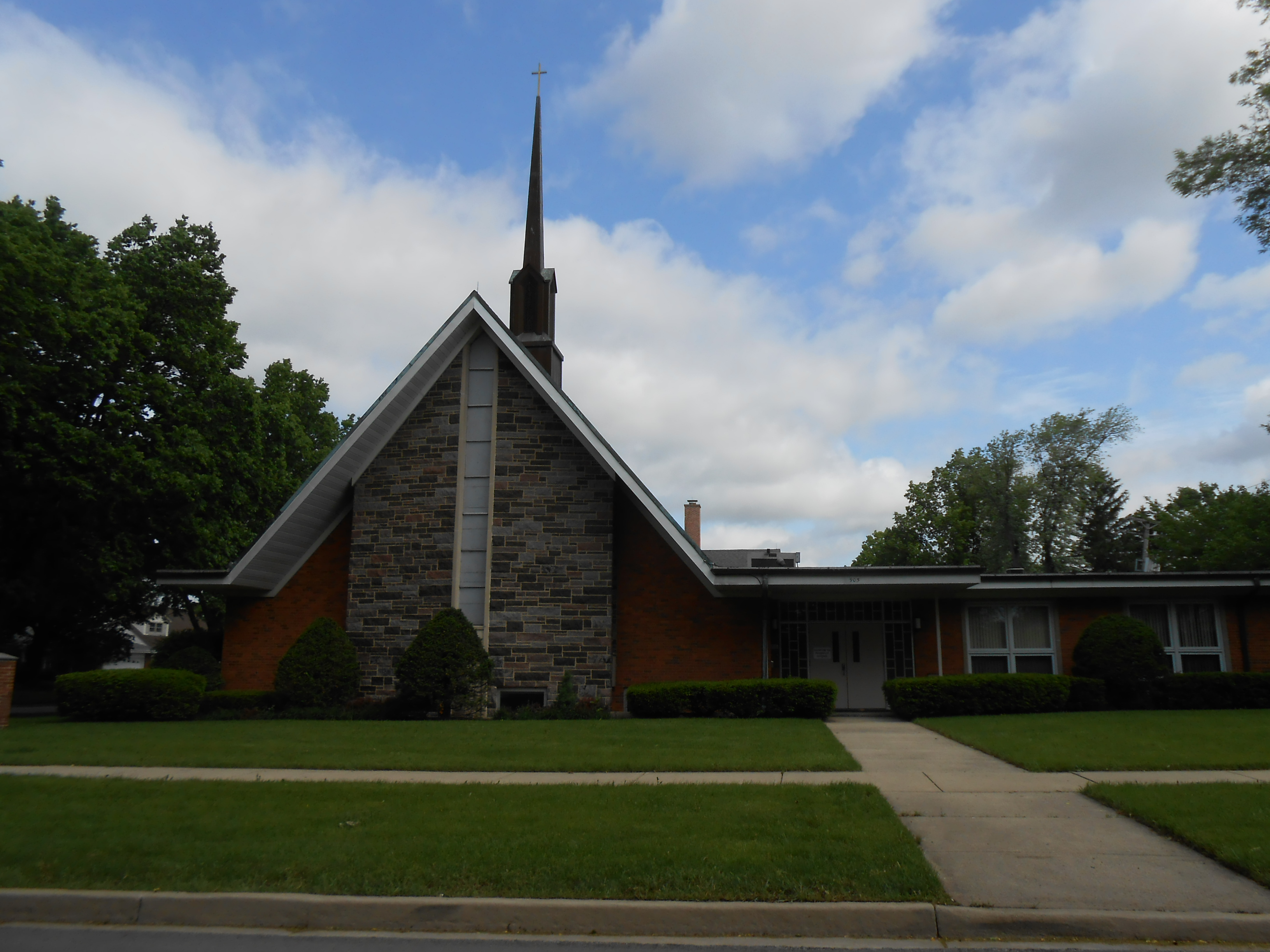 The second building used by Elmhurst Christian Reformed Church. It was used from 1964, when the congregation of the Christian Reformed Church in North America moved to Emhurst from Bellwood, Illinois, until 2009, when it moved to a new building several blocks to the south. The building is now St. Gregorios Malankara Orthodox Syrian Church.